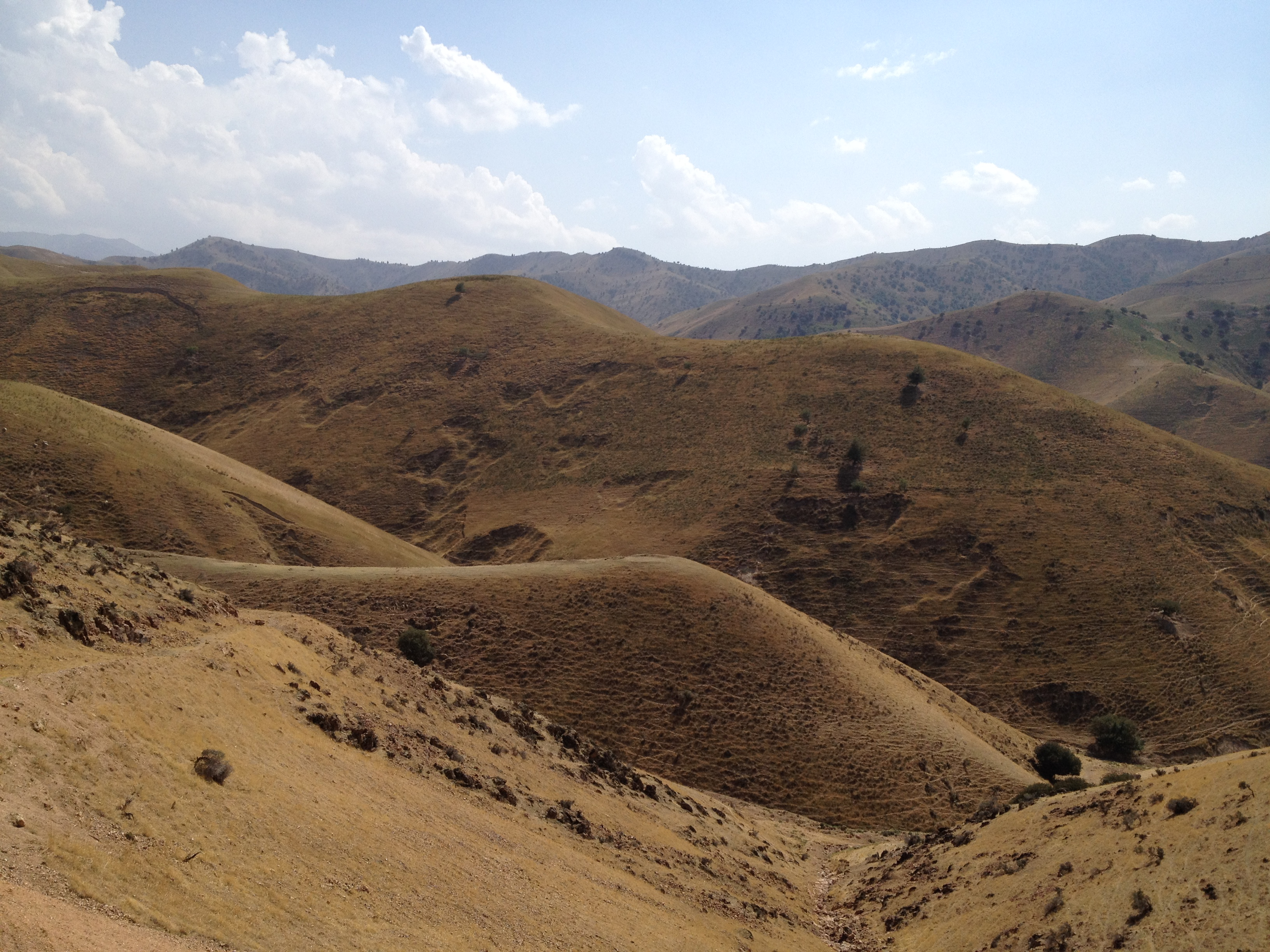 Qurama mountains, ancient turquoise mine Ungurli-kan Oʻzbekcha/ўзбекча: Qurama tog`lari, Ungurlikon (qadimiy feruza koni)